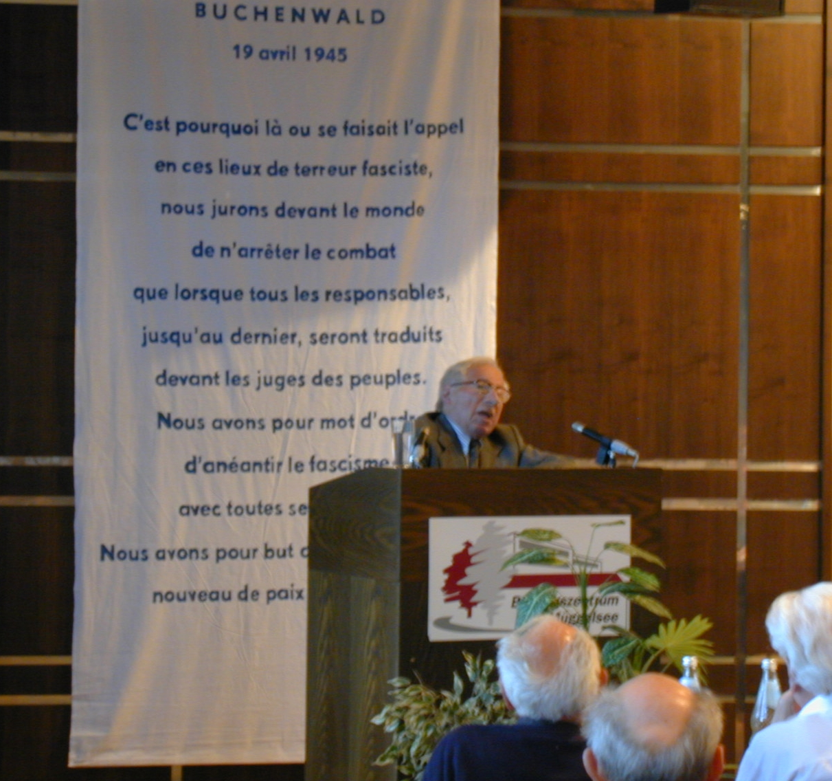 Adolphe Low, Spanish Civil War veteran, German Resistance fighter and member of the Legion of Honor, ANACR, Strasbourg, speaks to delegates at the Congress to Unite, October 2002